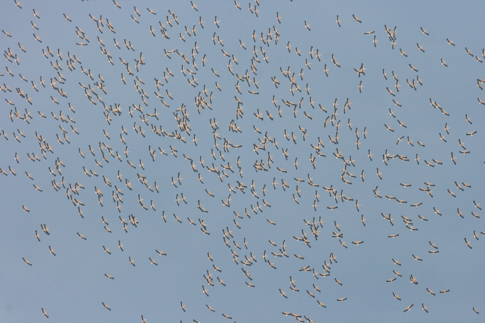 A flock of white storks (Ciconia ciconia) during autumn migration above Israel